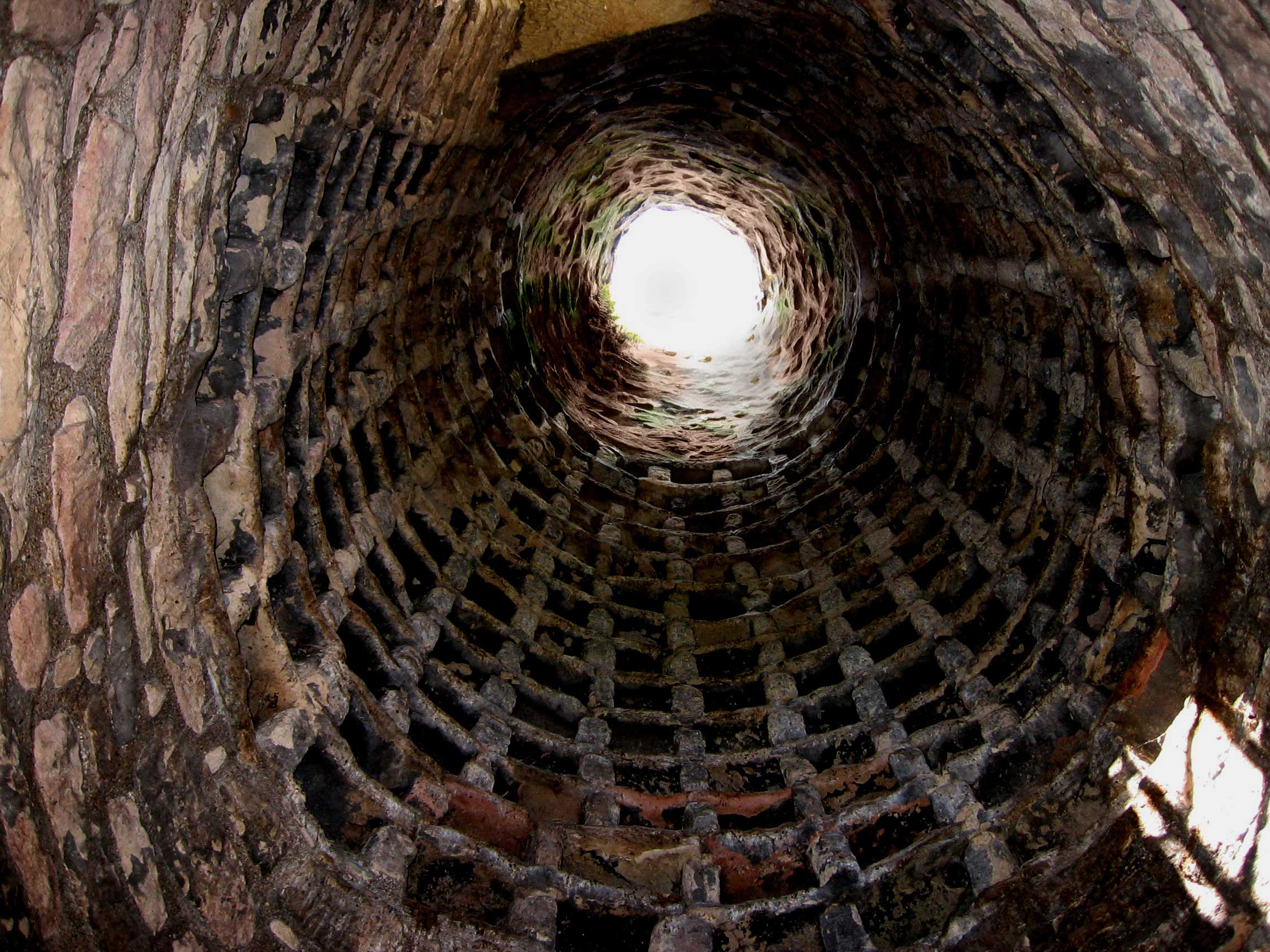 Interior of doocot at Newark Castle, Port Glasgow, Scotland, looking up past the pigeonholes to the round opening in the roof.